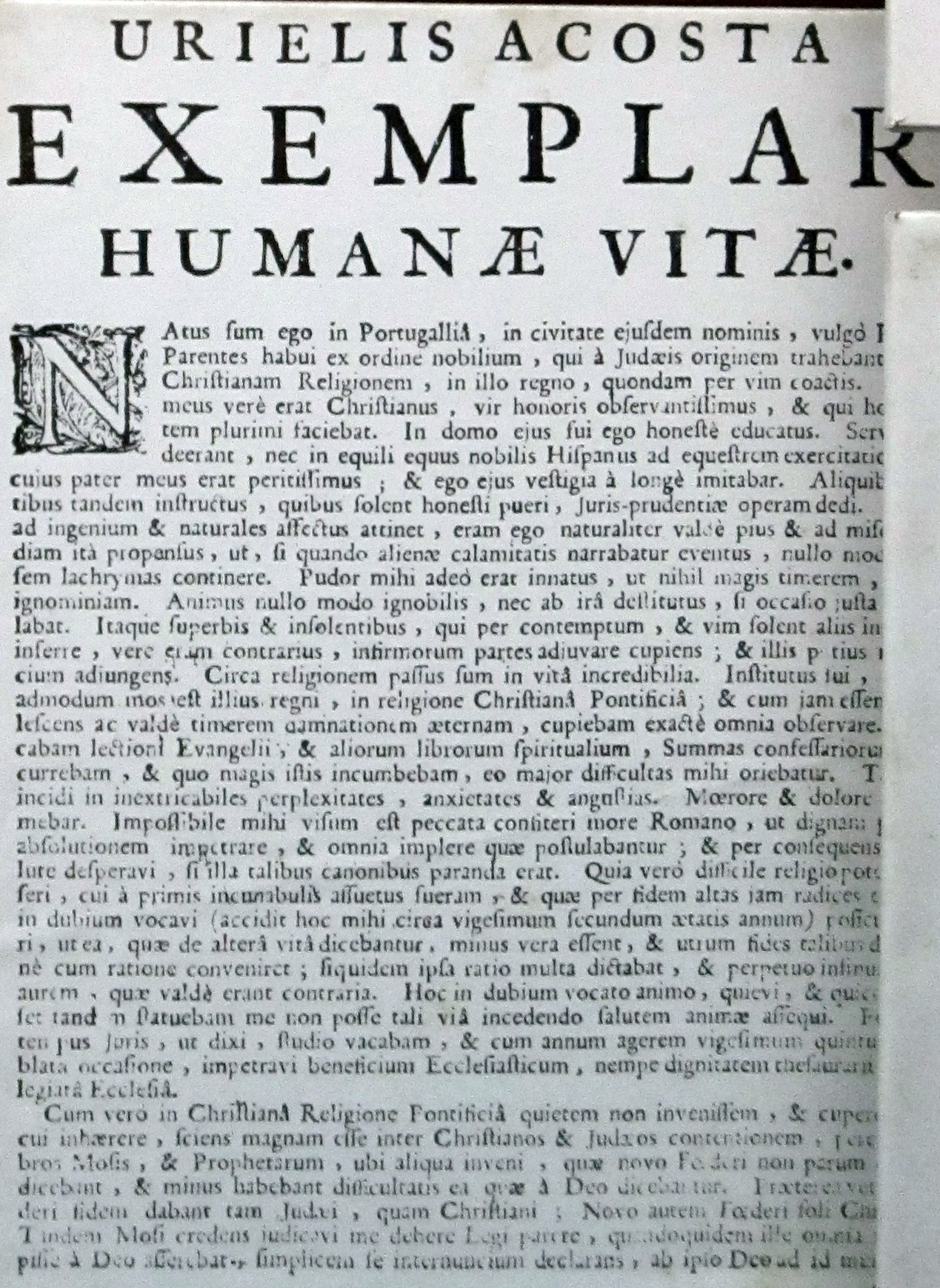 Exemplar Humanae Vitae by Uriel Acosta, Gouda, 1687 (Autobiography)